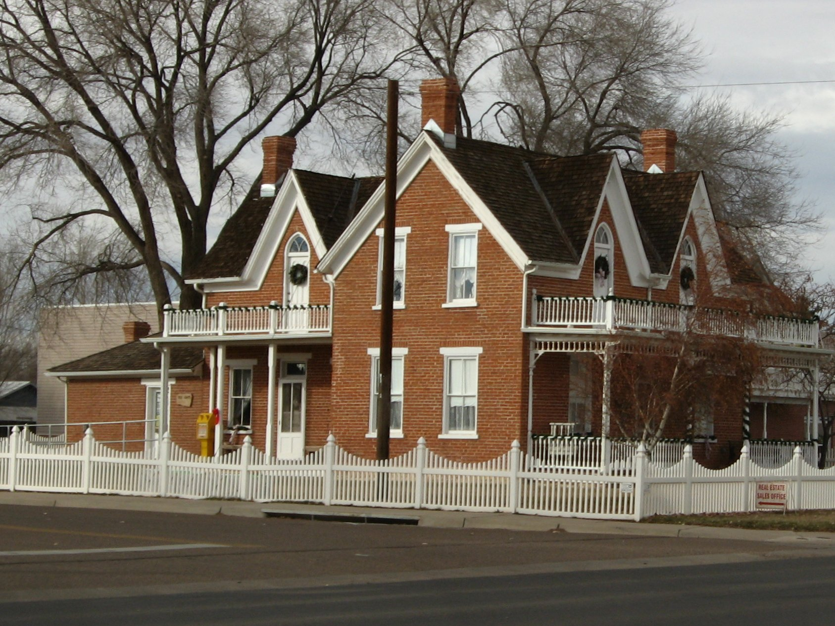 Snowflake is a town in Navajo County, Arizona, United States. It was founded in 1878 by William Jordan Flake and Erastus Snow, Mormon pioneers and colonizers. According to 2006 Census Bureau estimates, the population of the town is 4,958. Snowflake is 25 miles south of Interstate 40 (formerly U.S. Route 66) via Highway 77. The Apache Railway provides freight service. Recently, the town and surrounding area have experienced steady growth, primarily to the east, west and south. An additional 9-holes were added to the 18-hole golf course where the Snowflake Arizona Temple was built by The Church of Jesus Christ of Latter-day Saints in 2002. Snowflake experiences a four season climate with a warm (sometimes hot) summer, mild autumn, mild to cold winter and cool, windy spring. Typical high temperatures hover around 90 °F during July and August and 30 to 55 °F in December/January.